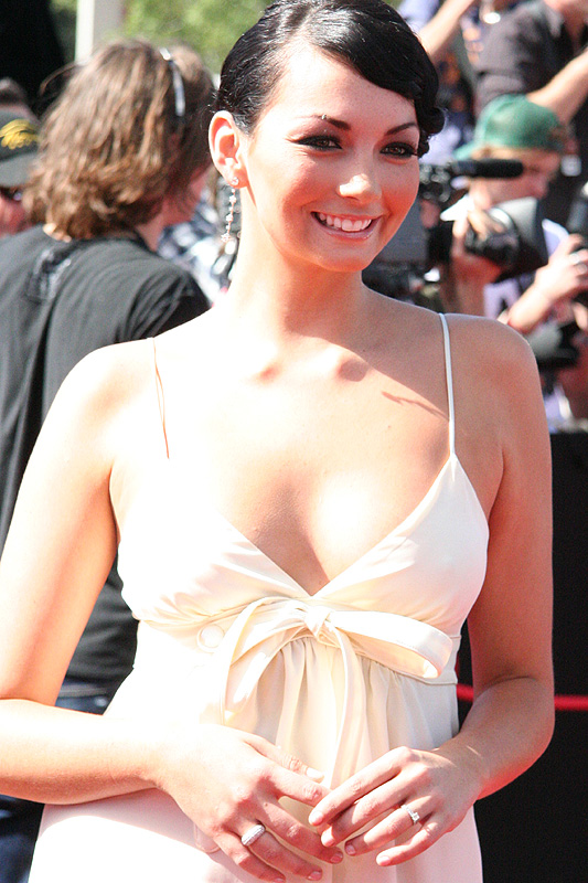 Ricki-Lee Coulter attending the 2006 ARIA Music Awards.